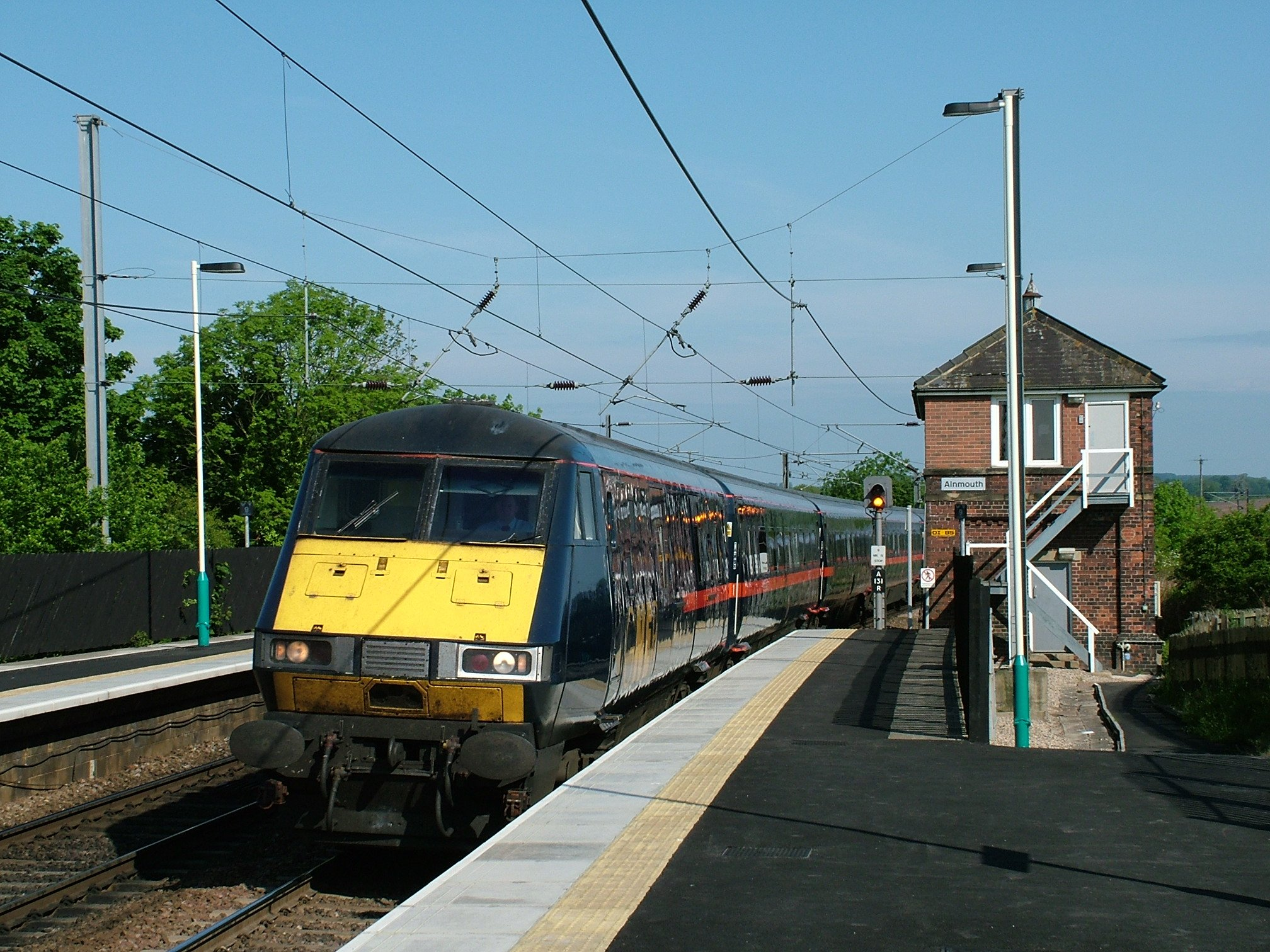 A GNER InterCity 225 set arrives at Alnmouth railway station with a southbound service.